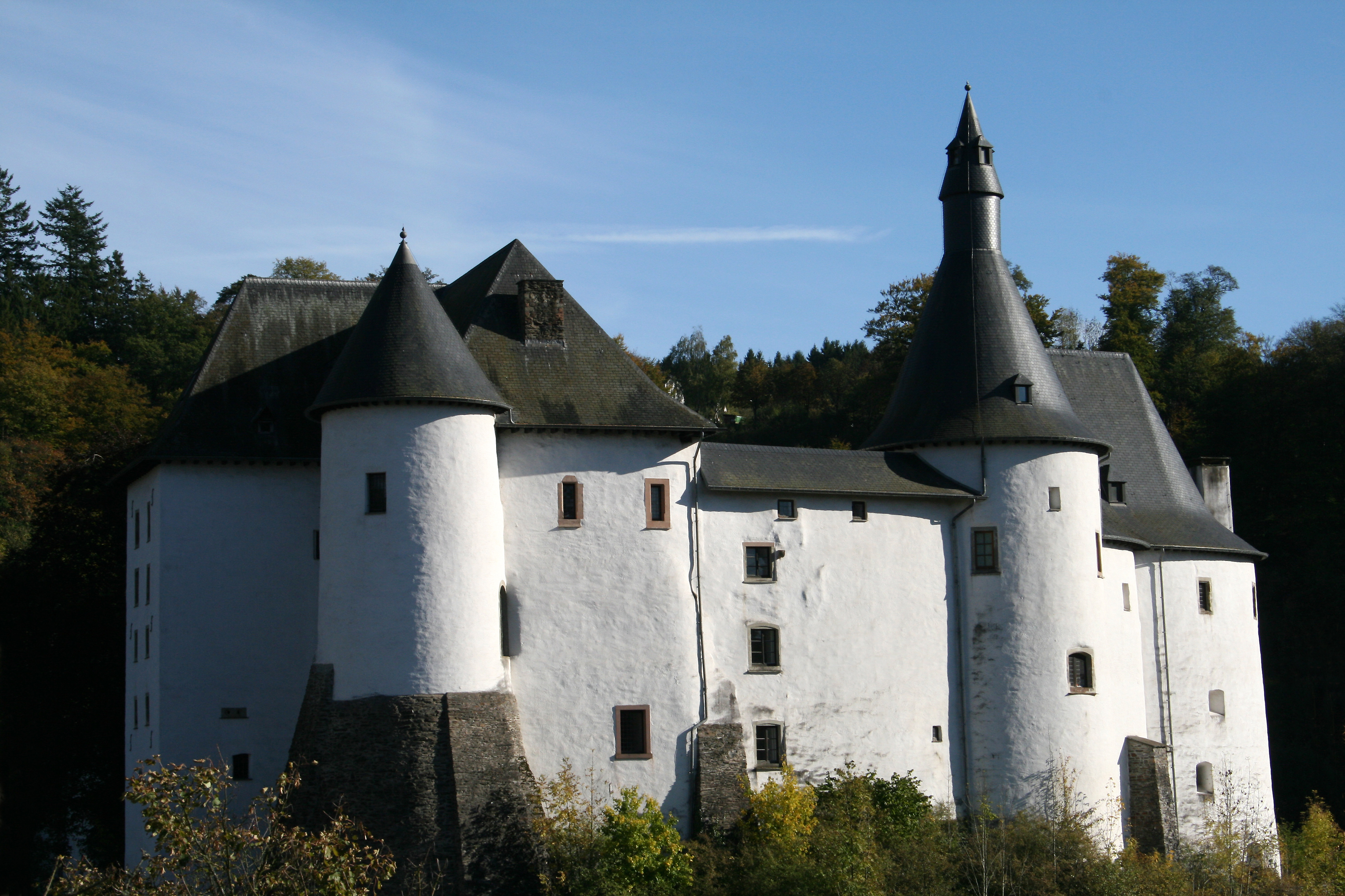 Clervaux (Luxembourg) - The old castle (XIIth century).